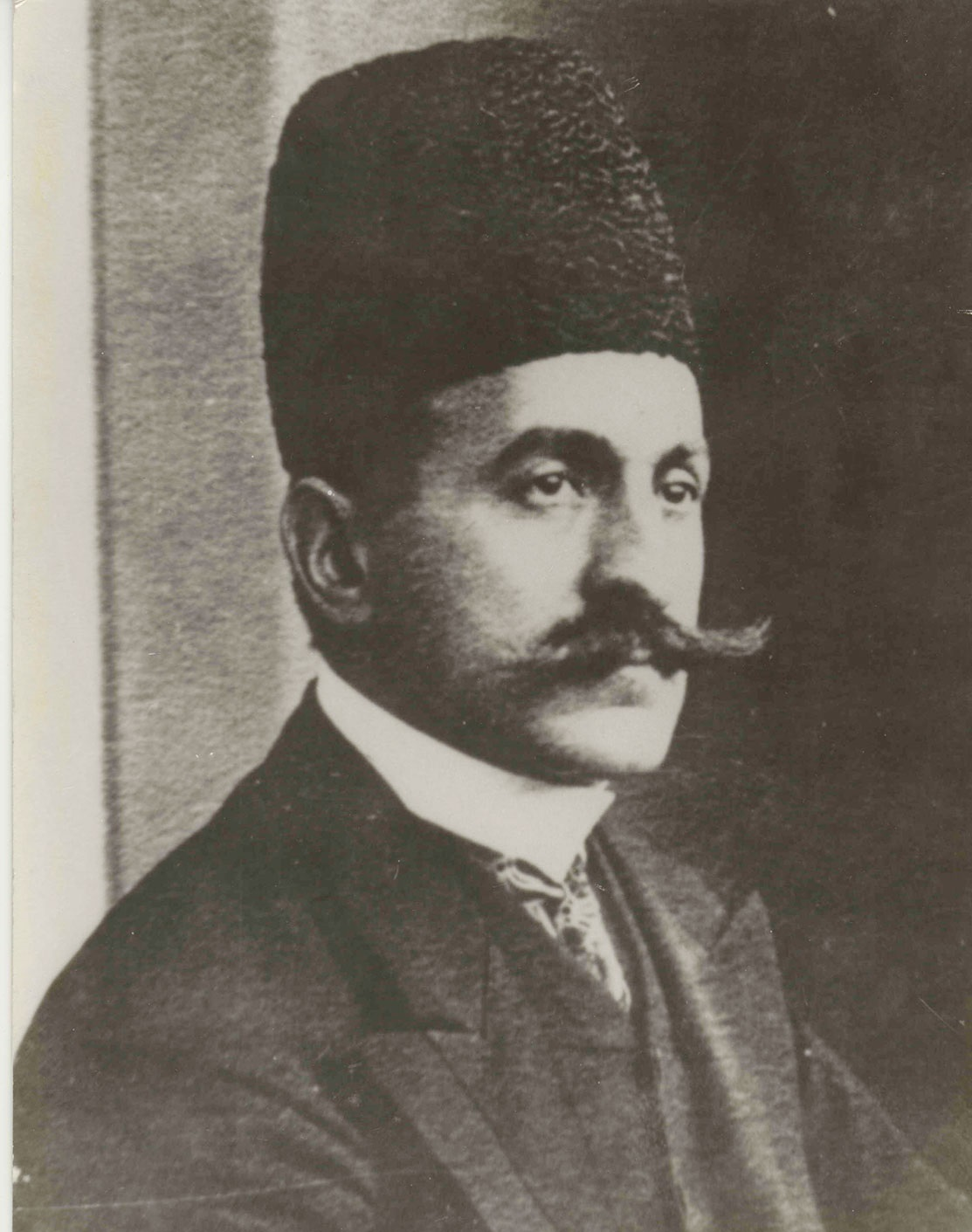 Mirza Mahmoud Khan